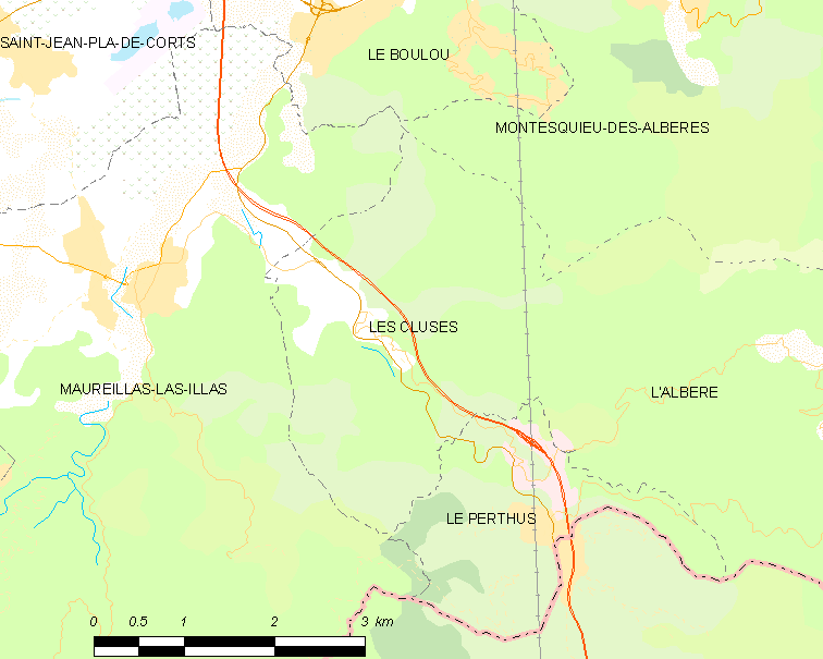 Map of French municipality